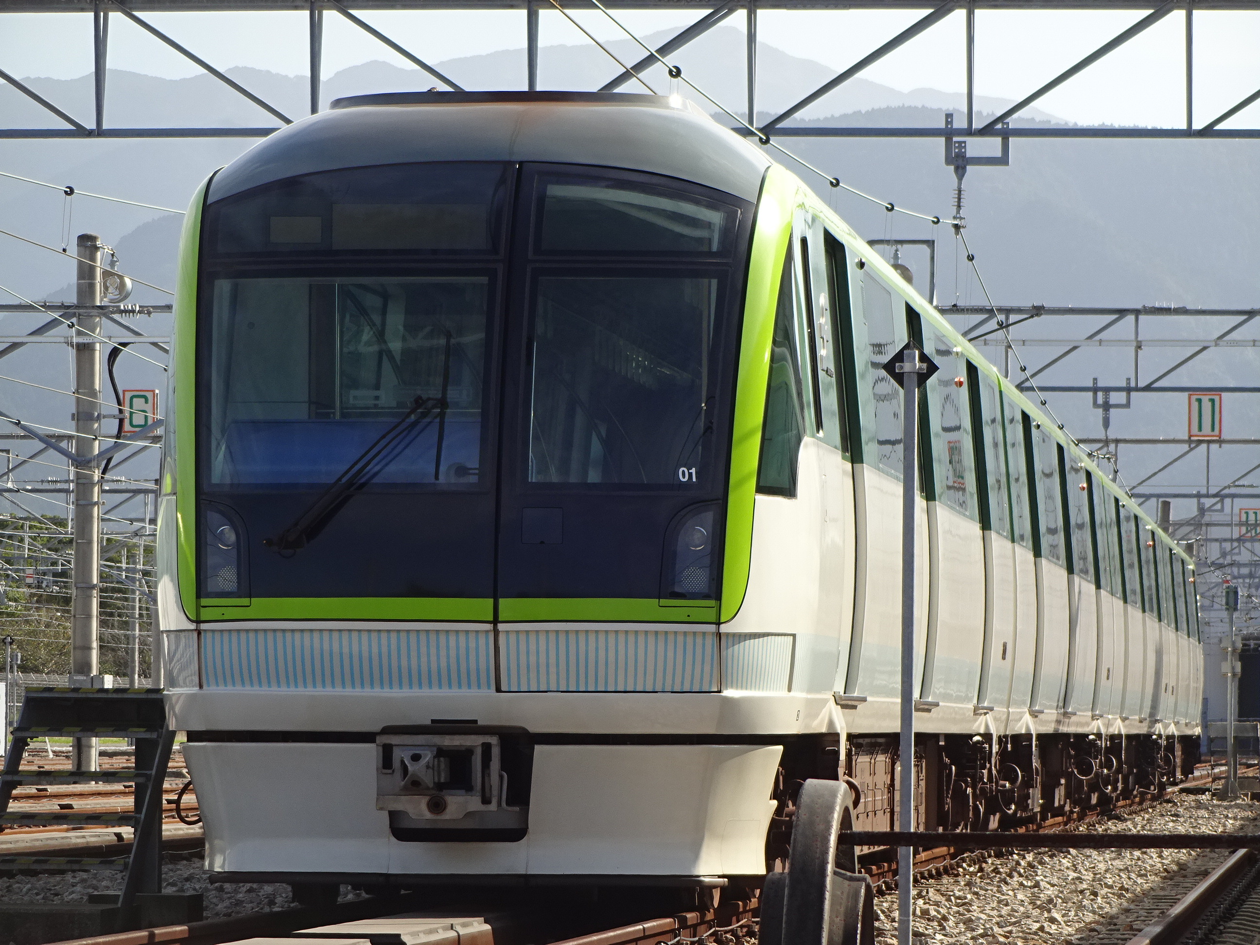 Fukuoka Subway 3000 series EMU set 01 at Hashimoto Depot